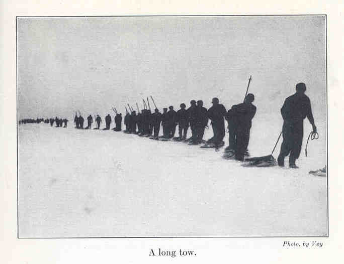 Long Two Subject: Sealers (Persons) Tag: Polar